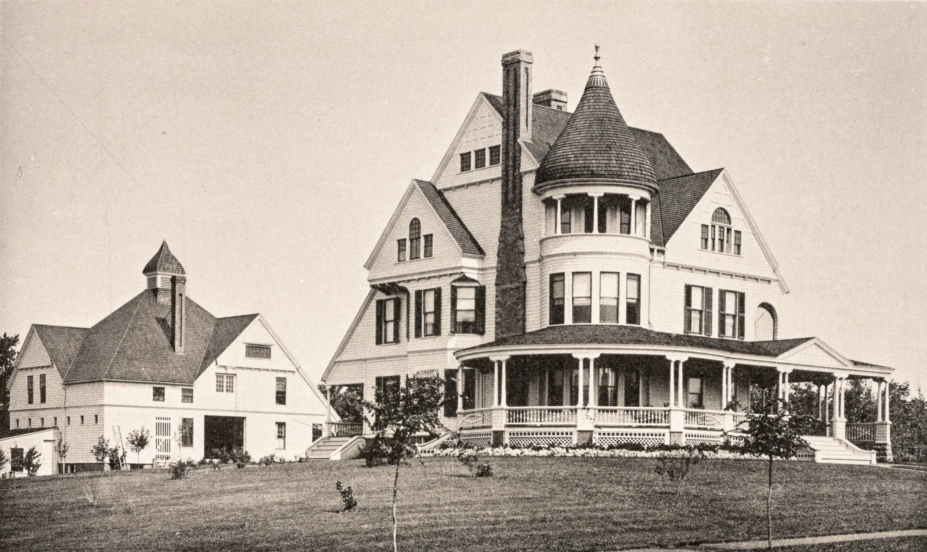 The estate of Oren D. Allyn, founder-developer of the Oakdale neighborhood of Holyoke, Massachusetts. Not seen in this photo is the rose garden which the Allyns would later grow, with 149 varieties, they would often give scions to the families whose houses they had built, and the garden attracted the attention of a Boston Globe writer who described it as an attraction of the city. The house still stands today on Locust Street, though the barn has since been demolished and the estate has been subdivided into other building lots.